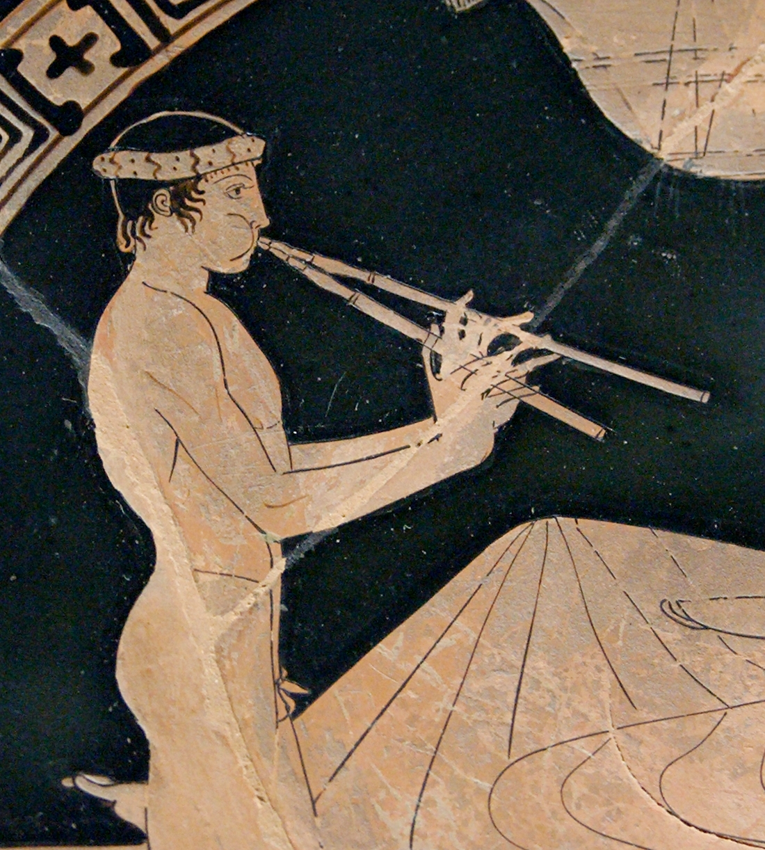 Youth playing the aulos, detail of a banquet scene. Tondo of an Attic red-figure cup, ca. 460 BC–450 BC.